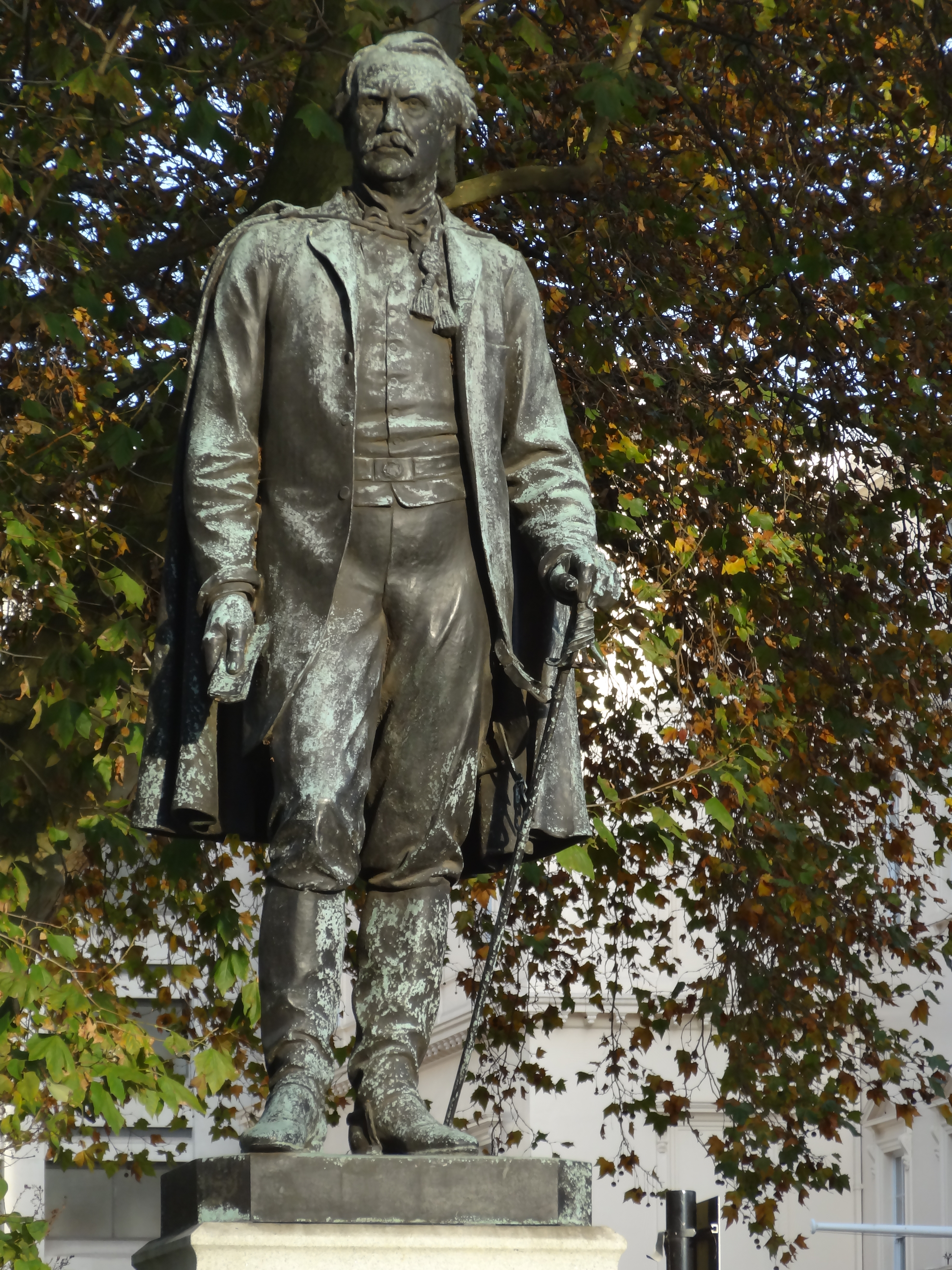 John Lawrence, 1st Baron Lawrence statue in Waterloo Place